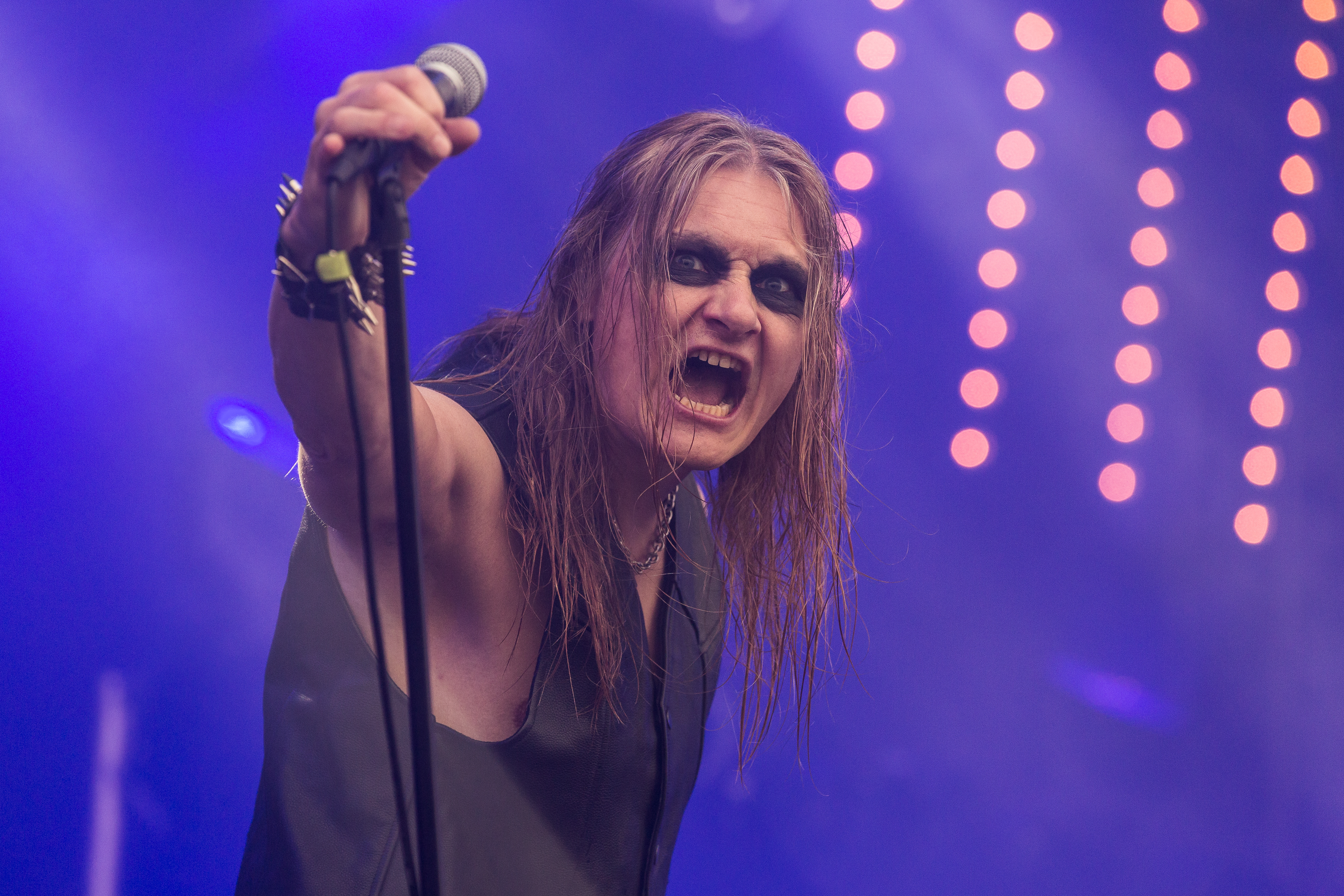 The Swedish death/black metal band Necrophobic at the Party.San Metal Open Air 2017 in Obermehler-Schlotheim/Germany.